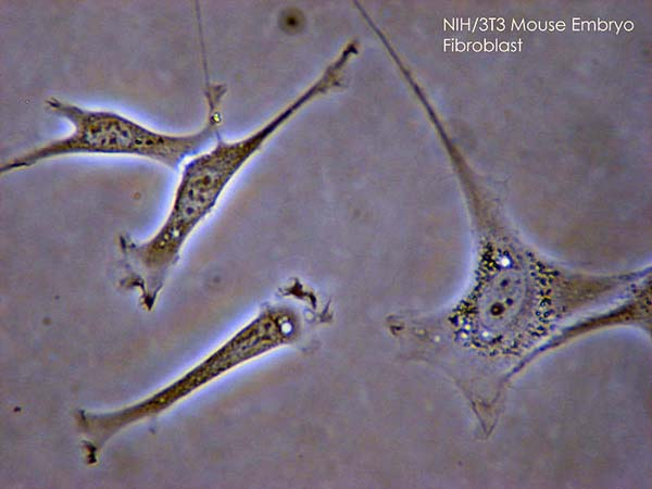 Image taken with Canon Powershot S3 on Nikon TS100 inverted microscope by the author using phase contrast microscopy.